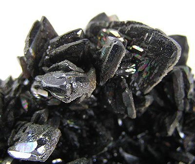 Descloizite Locality: Berg Aukas (Berg Aukus), Grootfontein District, Otjozondjupa Region, Namibia (Locality at ) Size: 6 x 4.2 x 3 cm. Descloizites from Berg Aukas are generally recognized as the best in the world. While descloizite can be a pretty ugly mineral, the ones from here can actually be really aesthetic in addition to being the best representatives of the species - as this one out of the collection of Ed David is. It has beautifully sharp and well-formed crystals to 1.5 cm, and a fine flashing luster that is uncommon (they can be really dull).